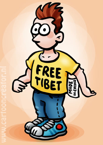 Cartoon about protest against Chinese domination of Tibet. T-shirt stating "Free Tibet" but is made in China. Satire created by illustrator Peter Welleman